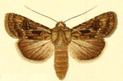 Image from Plate 7 of Die Gross-Schmetterlinge der Erde (The Macrolepidoptera of the World) Vol. 3